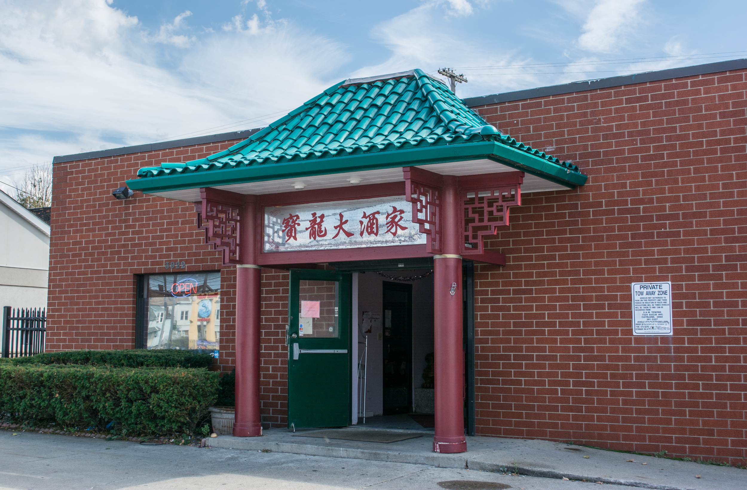 Bo Loong, a restaurant that serves Korean cuisine, located at 3922 St. Clair Avenue in Cleveland, Ohio, in the United States. The restaurant is typical of those in Asiatown, the Asian enclave in Cleveland. The restaurant was founded by Chinese immigrant Sin Mun (Jenny) Chan. The building was constructed in 1985 on the site of five now-demolished houses, and the restaurant opened in 1986. It doubled in size in 1990. It has become a landmark for dim sum in the city.